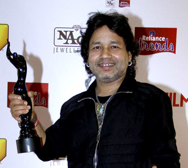 Singer Kailash Kher at the 61st Filmfare Awards South